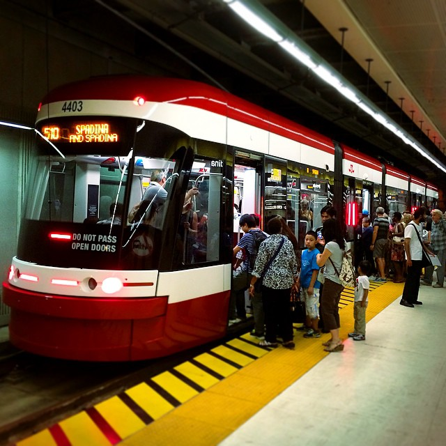 New streetcar at Spadina TTC subway station in Toronto. Original caption: “I've met my new ride and I approve!”